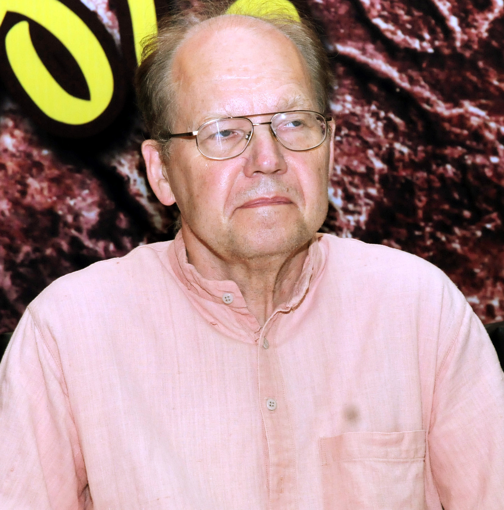 Asko Parpola, Finnish Indologist and Sindhologist, Tamil Professor